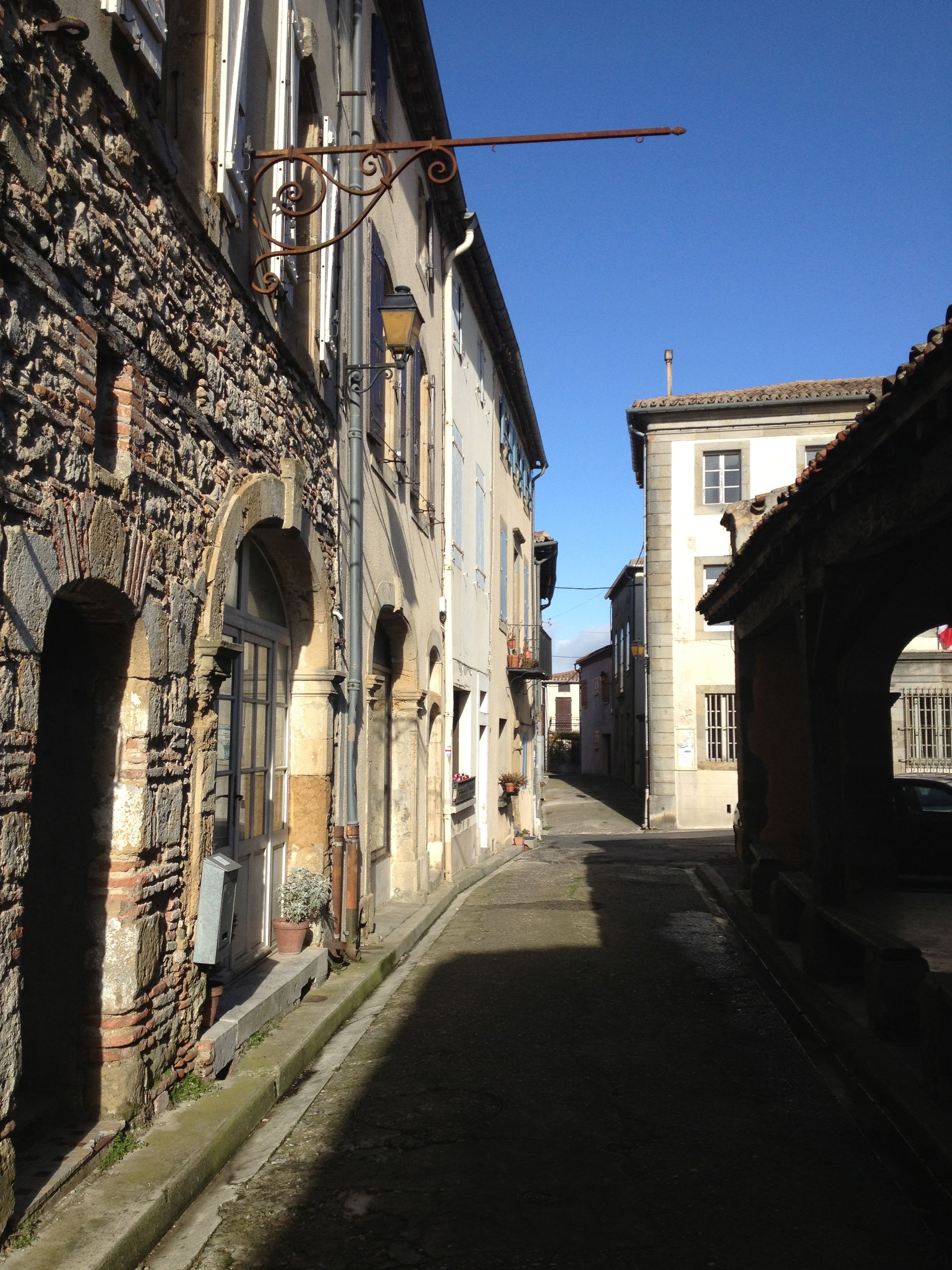 Street next to the old market hall in Fanjeaux.